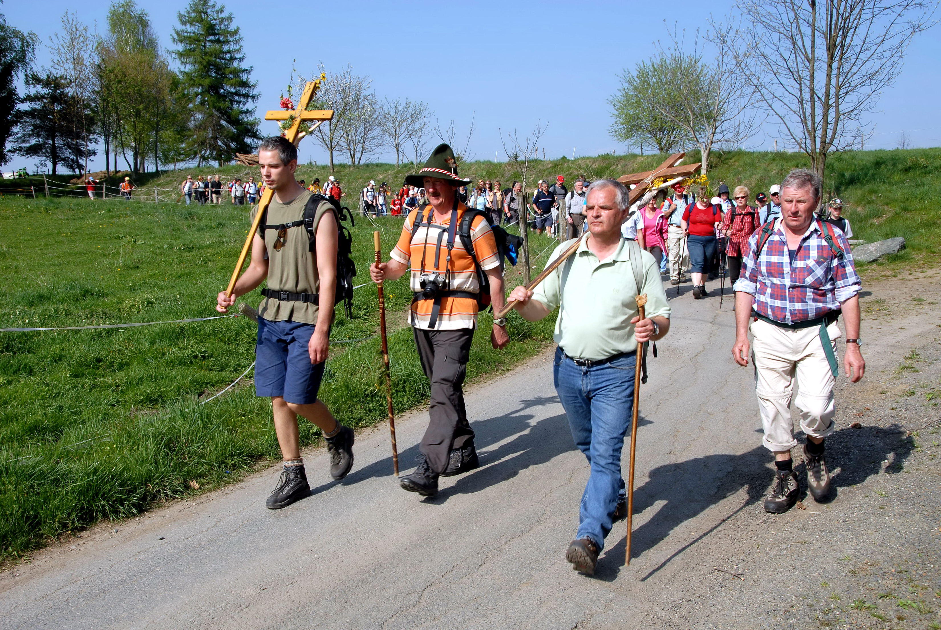 Vierbergelauf pilgrimage at Mairist in the community of Sankt Veit an der Glan, Carinthia, Austria.